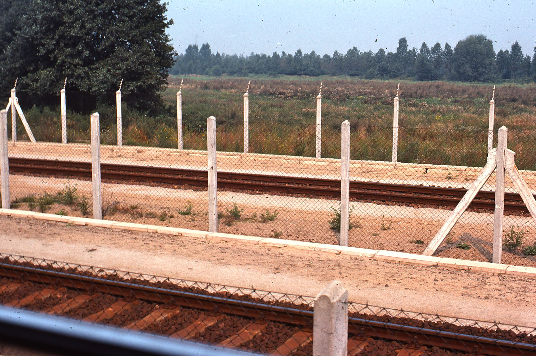 Railroad tracks through West Germany, 1977, showing fencing and other barriers near the tracks to hinder access. Inner German border. Other information Photo by George Garrigues